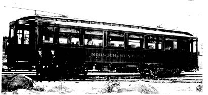 Norwich & Westerly semi-convertable car #8 and crew